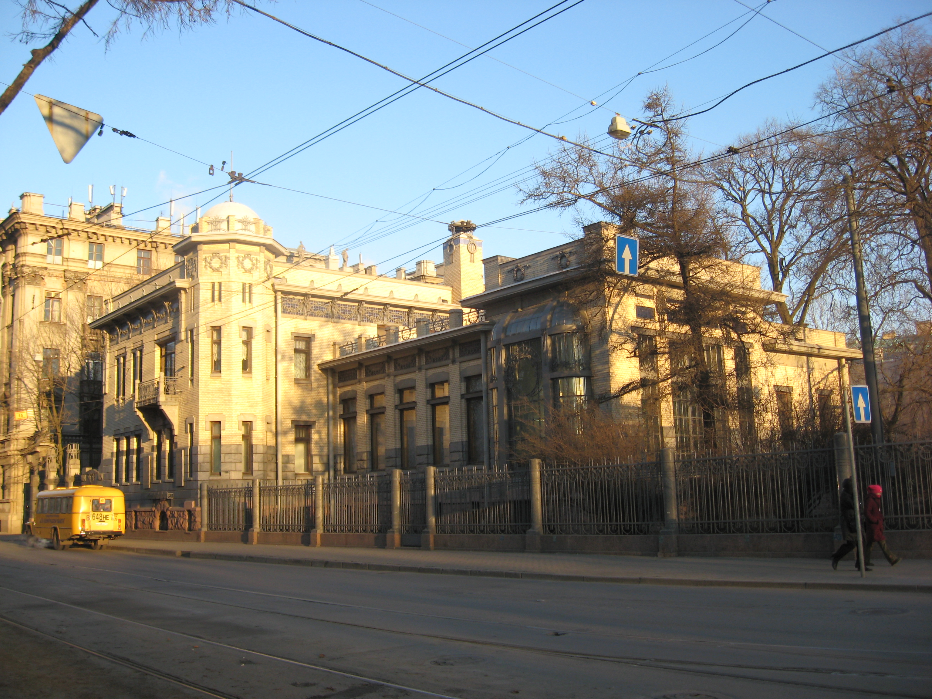 Kshesinsky Palace in St-Petersburg